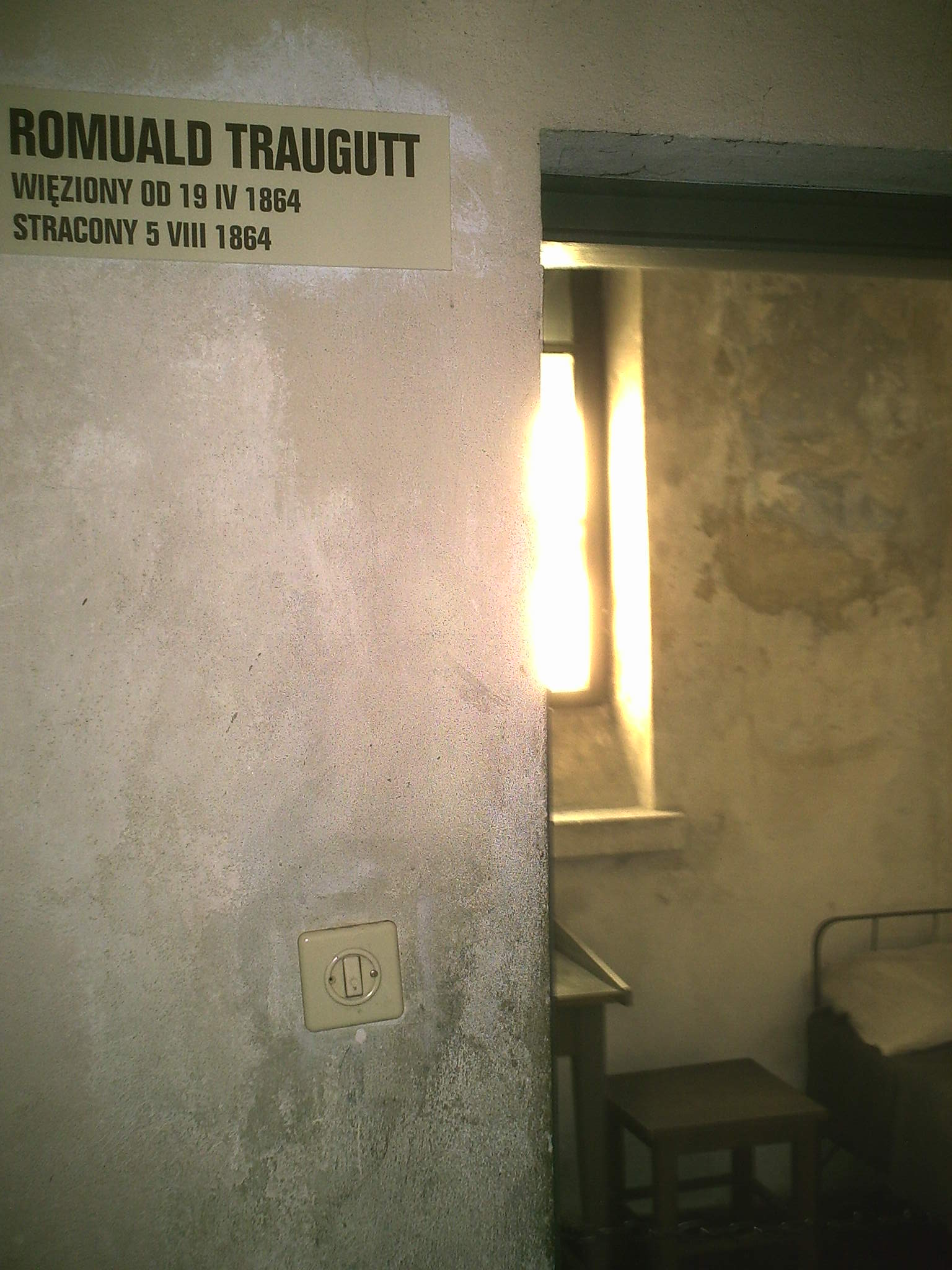 Place of Romuad Traugutt's imprisoning.